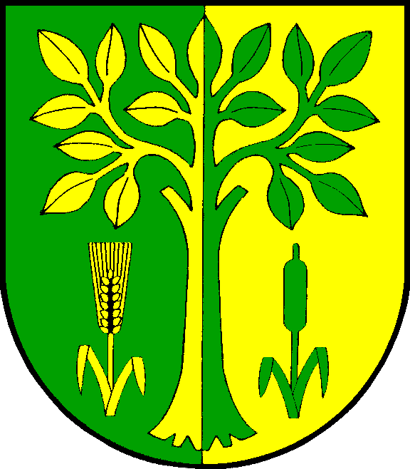 Coat of arms of the municipality Dätgen in Schleswig-Holstein, Germany.